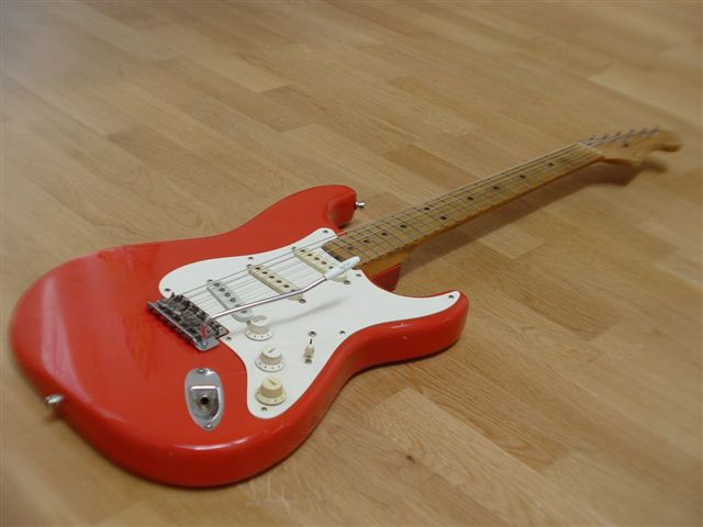 "La Marquise", Jean-Pierre Danel's 1956 Fiesta Red Fender Stratocaster.